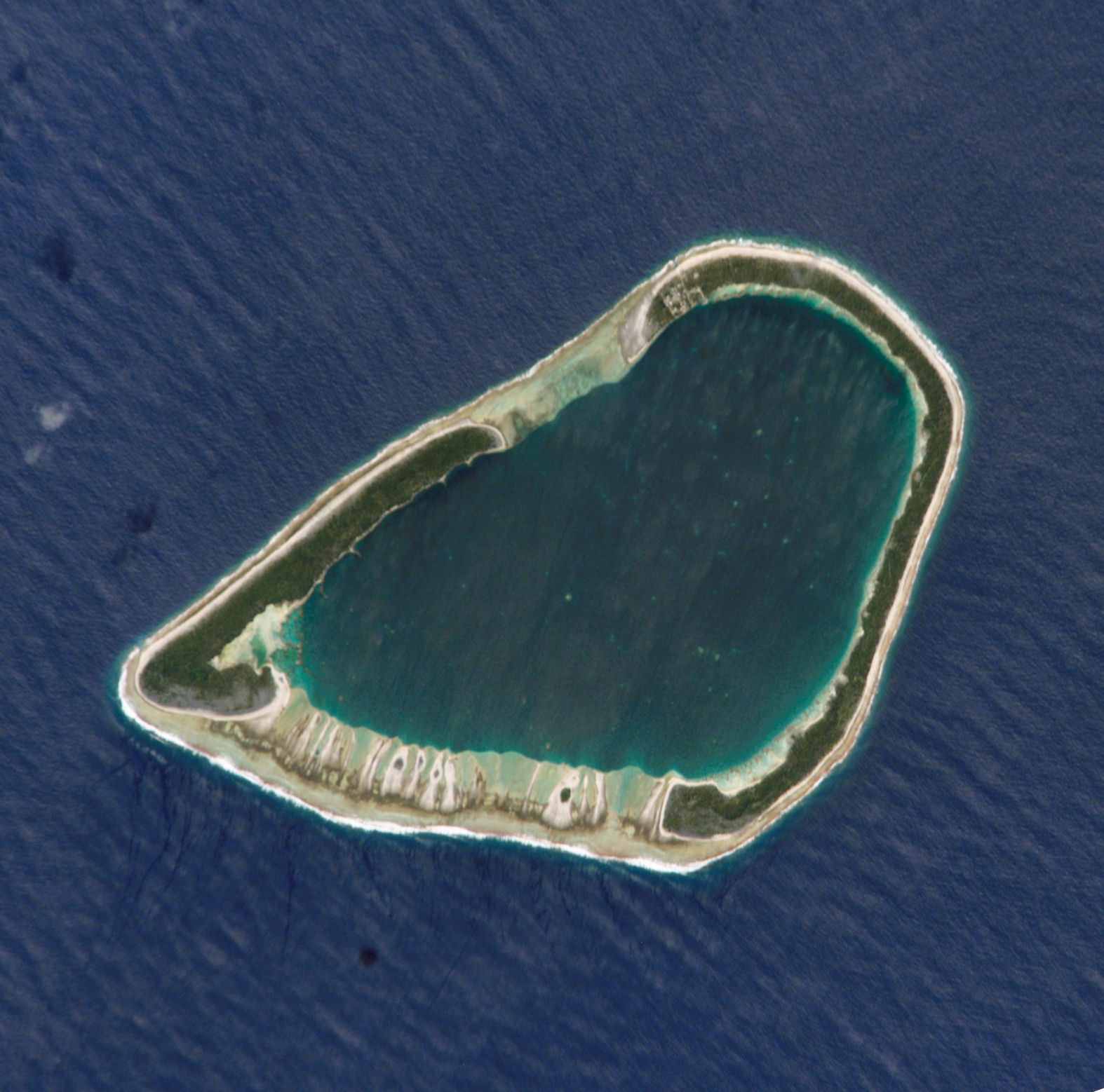 NASA Astronaut Image of Vairaatea Atoll (Tuamotu Archipelago, French Polynesia) in the Pacific Ocean